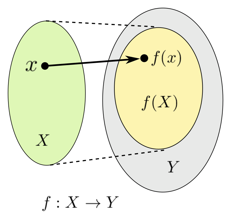 domain and codomain for function